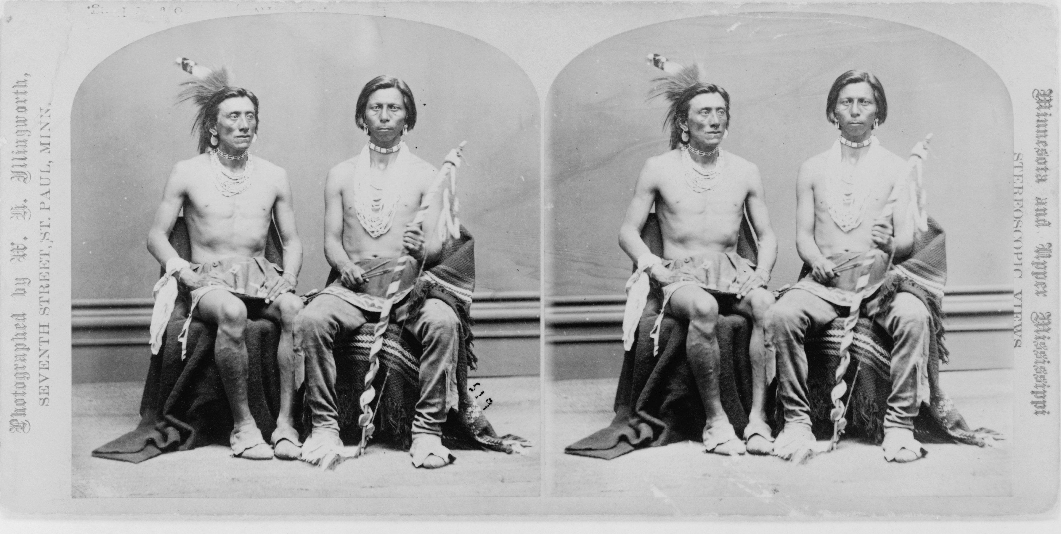 Two Winnebago men, full-length portraits, seated. Photographed by W.H. Illingworth.